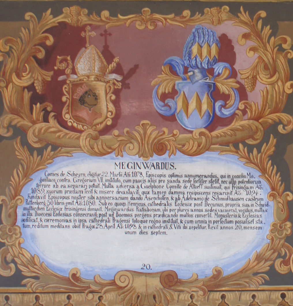 Wappentafel von Meginward, Bischof von Freising, im Fürstengang zwischen Fürstbischöflicher Residenz und Freisinger Dom. Links das geistliche, rechts das persönliche Wappen, darunter ein lateinischer Text mit kurzer Biographie.